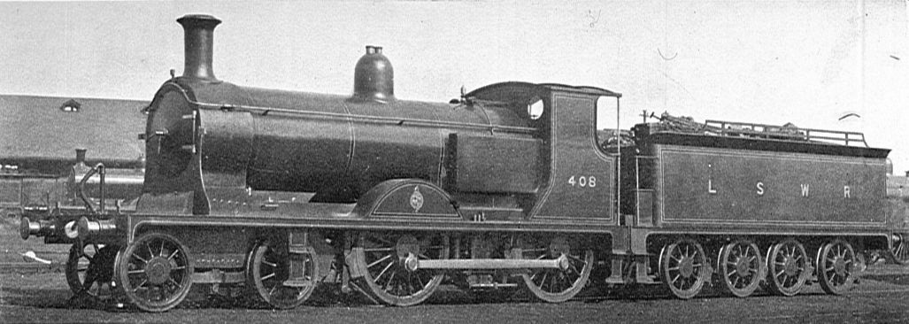 Mixed Traffic Engine for the London and South Western Railway with Water Tube Firebox.